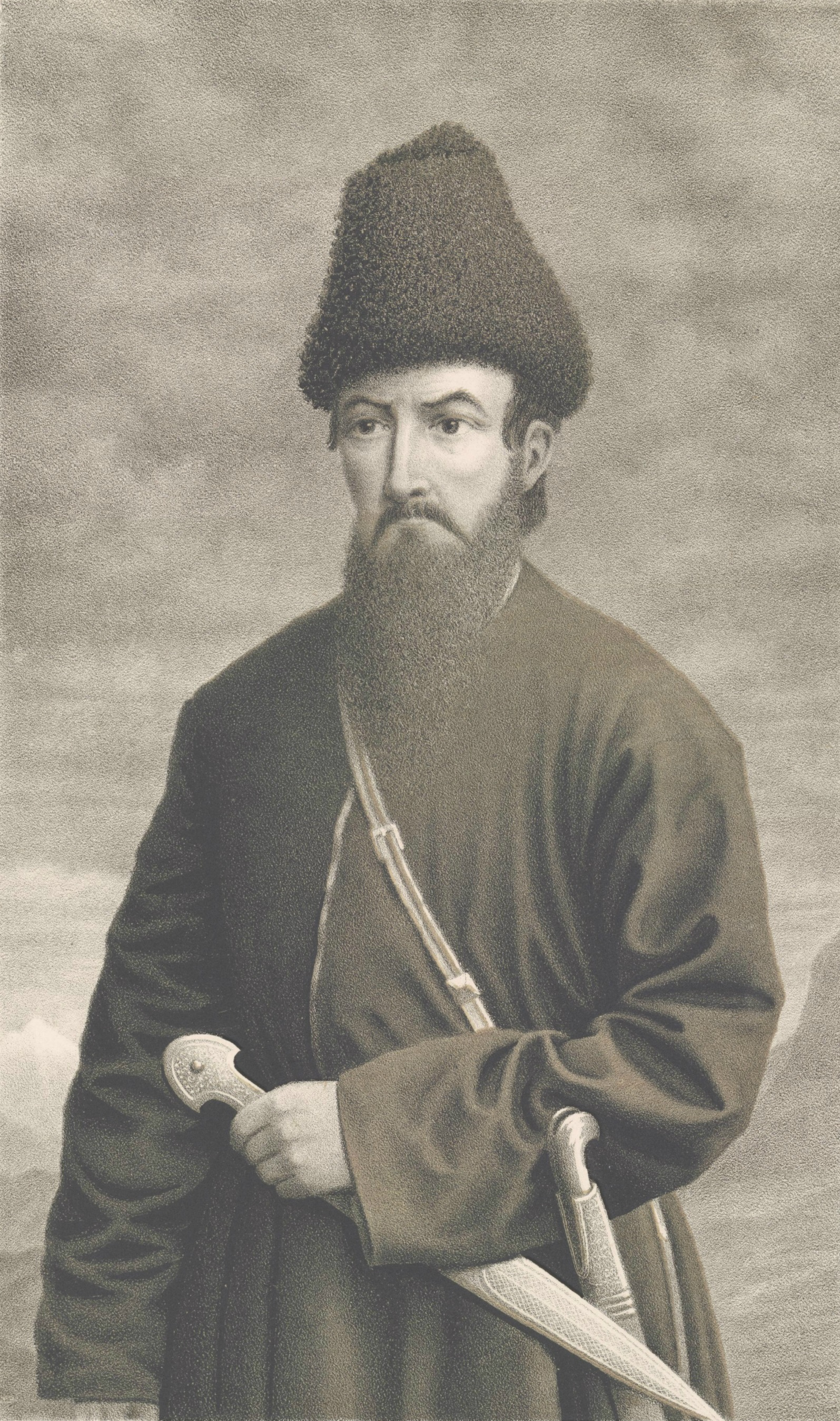 Alexander, Prince of Georgia. A 19th-century portrait of the Georgian royal prince and anti-Russian military leader from the book published in Tbilisi in 1902.